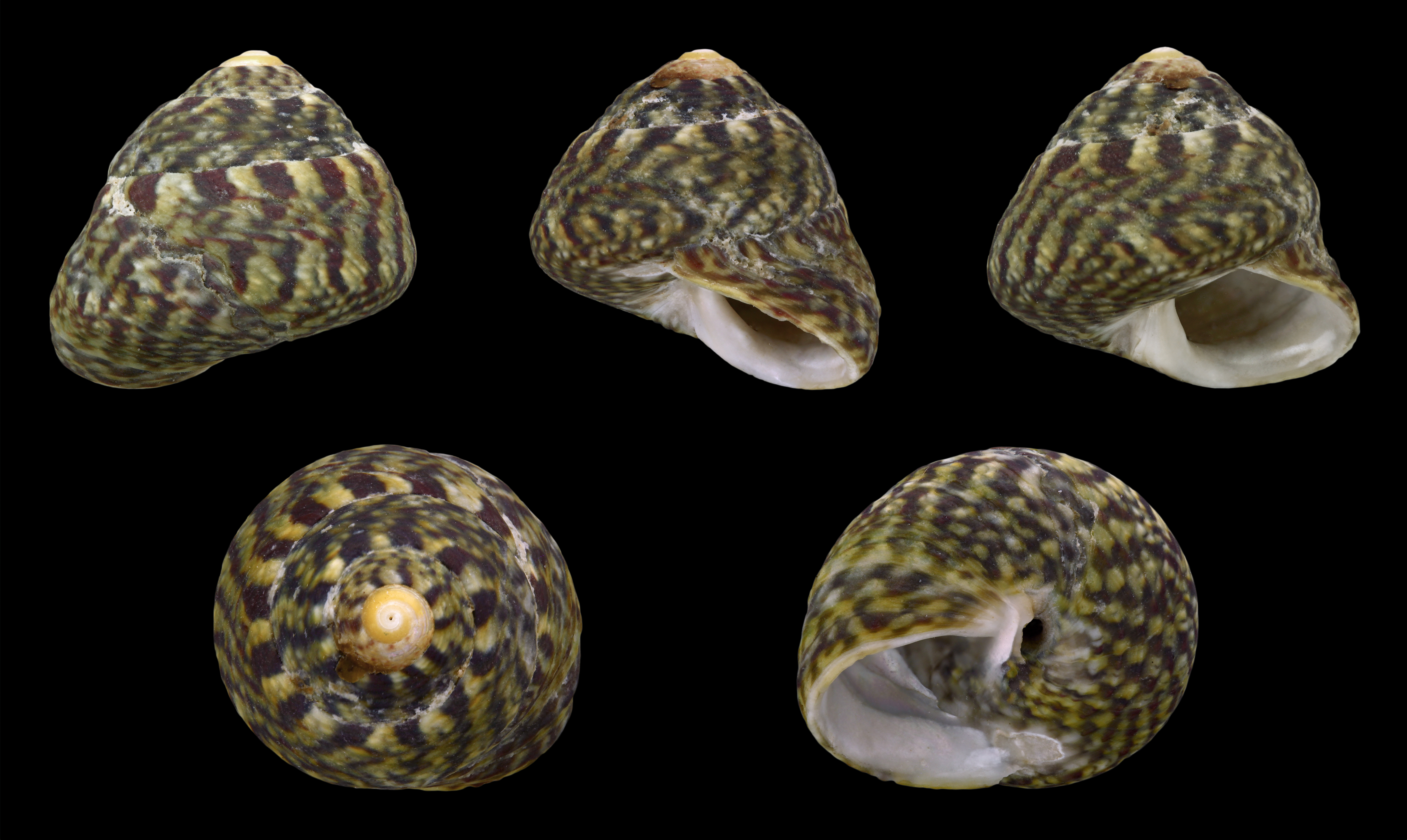 Pennant's Top Shell; Diameter 1.6 cm; Originating from Lindbergh Plage, Cotentin, Britanny, France; Shell of own collection, therefore not geocoded.